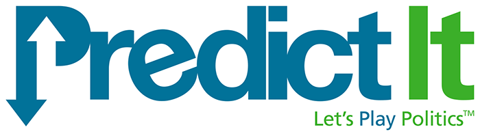 PredictIt logo